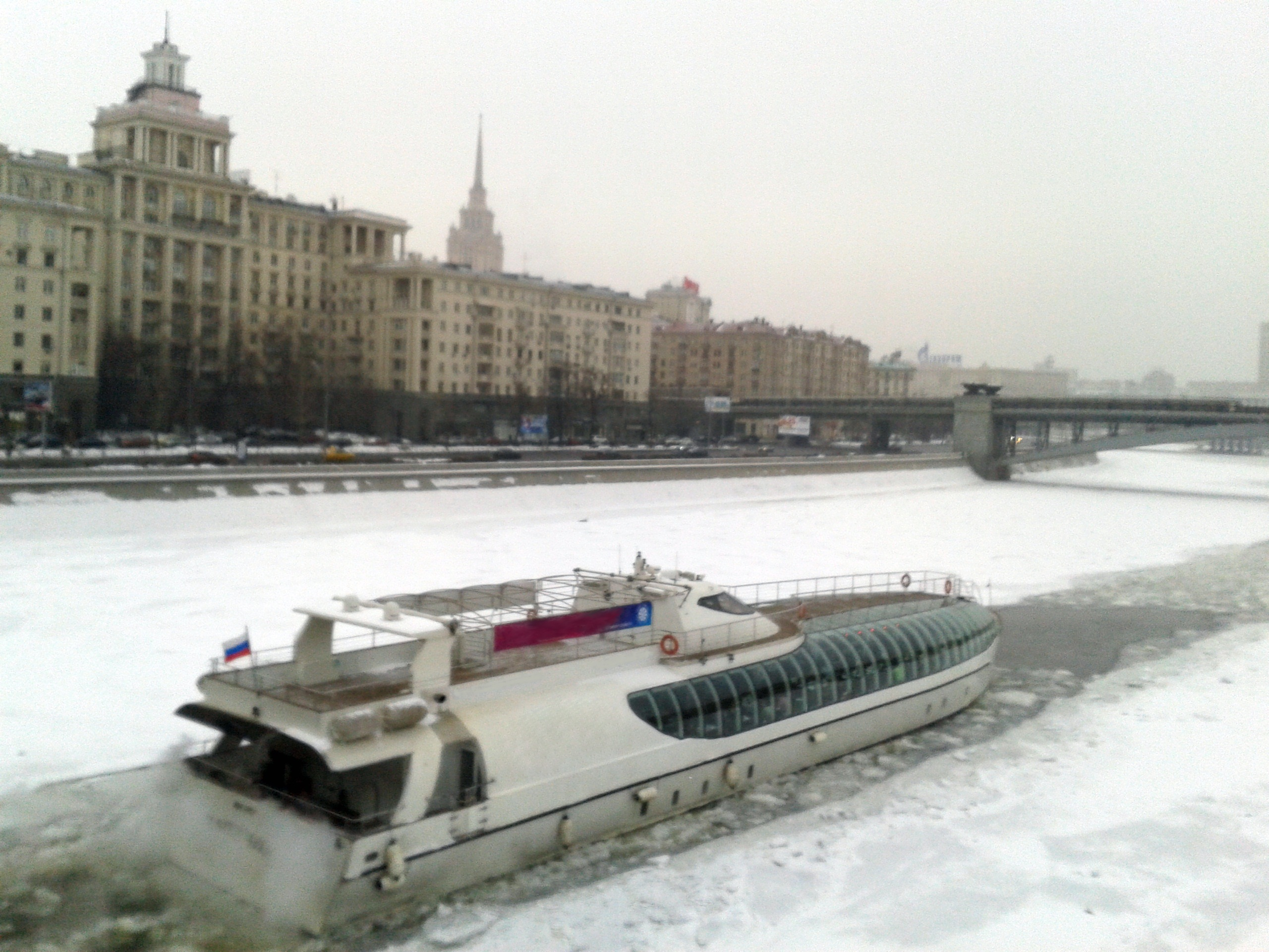 Pleasure iceboat on the Moscow river (Moscow).